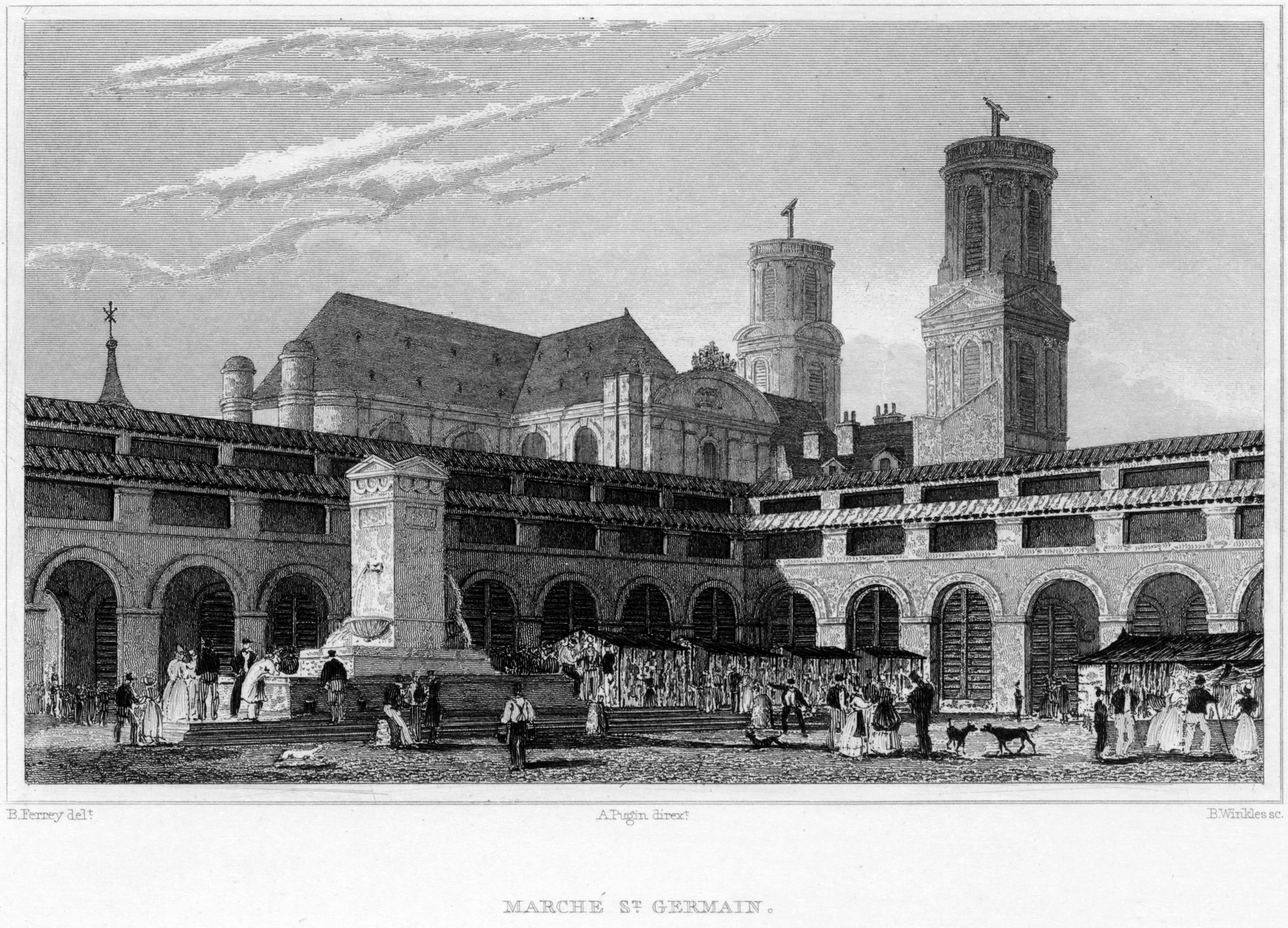 After a seven-year long construction process, the Marché de Saint-Germain was opened to the public in 1820. In 1831, when this engraving was made, the market consisted of nearly forty arcades and was one of the most popular in Paris. Located on the rue du Four in the sixth arrondissement, the market featured five iron gate entrances, as well as a decorative fountain.